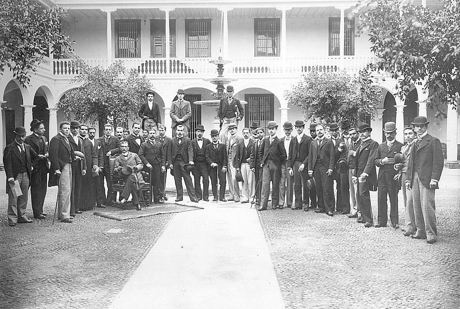 National University of Saint Mark Jurisprudence and Law class of 1896